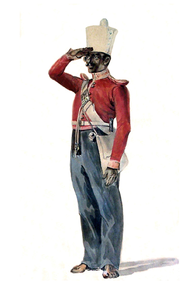 Sepoy, 29th Madras Native Infantry. Watercolour by Alex Hunter, 1846